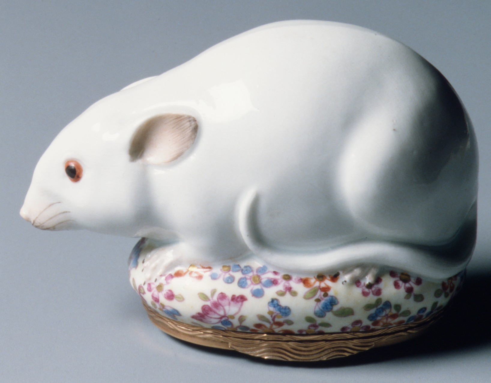 German, Meissen; Snuffbox; Ceramics-Porcelain